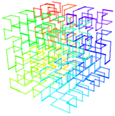 Hilbert 3D curve, iteration 3